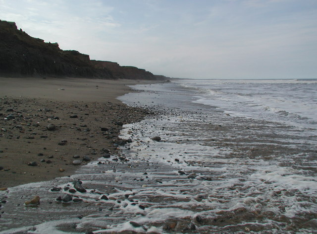 Lark Hill Beach, Cowden, East Riding of Yorkshire, England.The beach below the Air Weapon Range at RAF Cowden, on the North Sea coast just north of the parish boundary between Aldbrough and Mappleton.